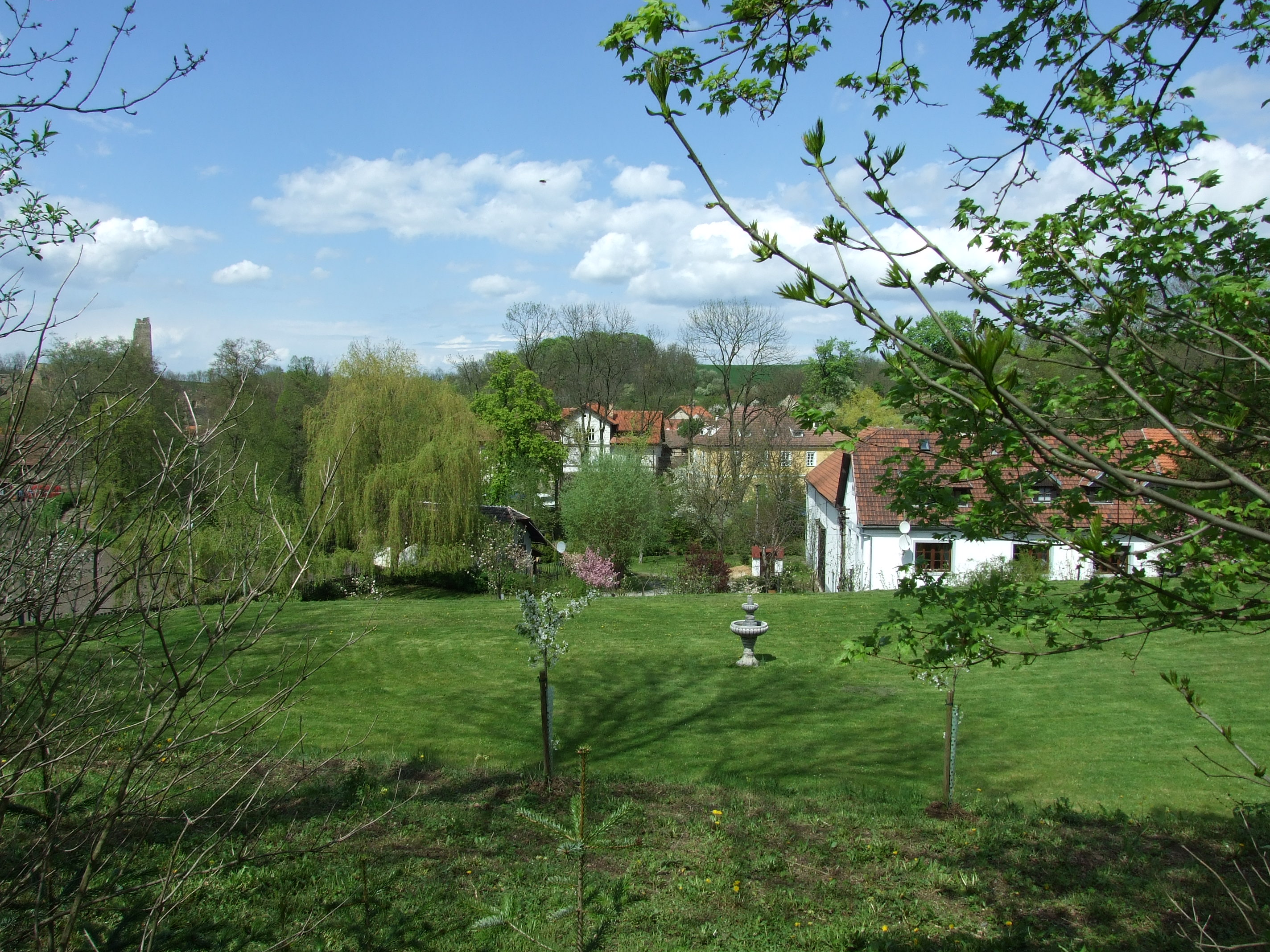 Okoř, village in Central Bohemian region, known because of its castle ruins